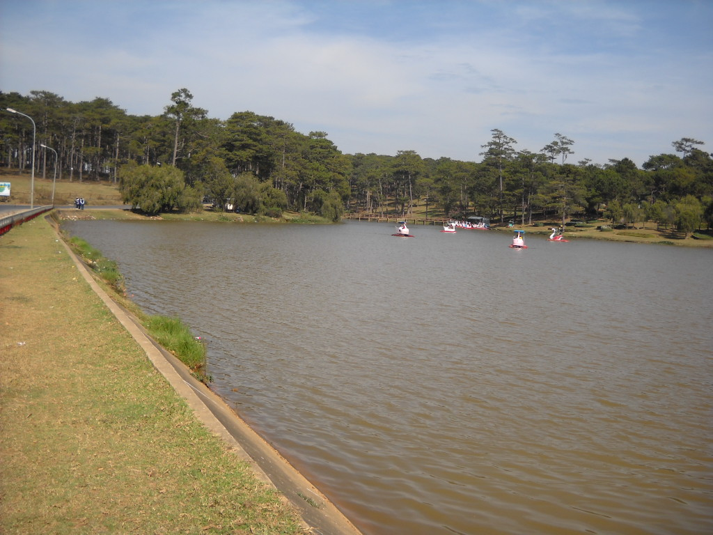 Than Thở Lake